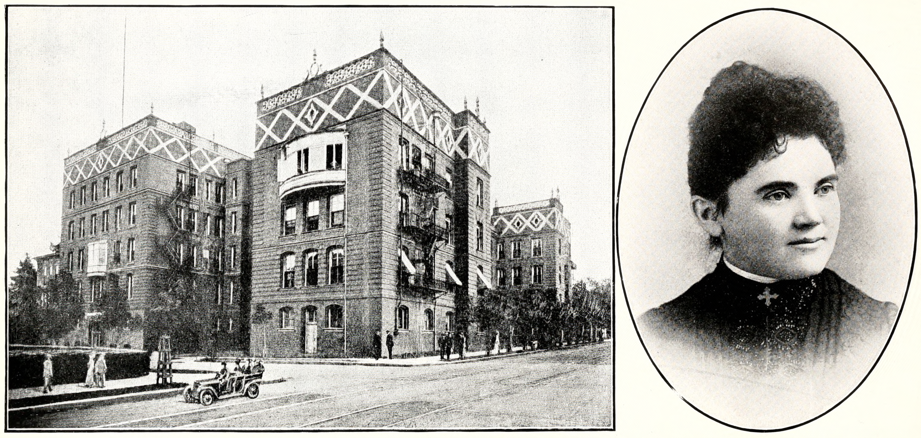 Good Samaritan Hospital in Portland, Oregon, and Mrs. Emma J. Wakeman, Supt.